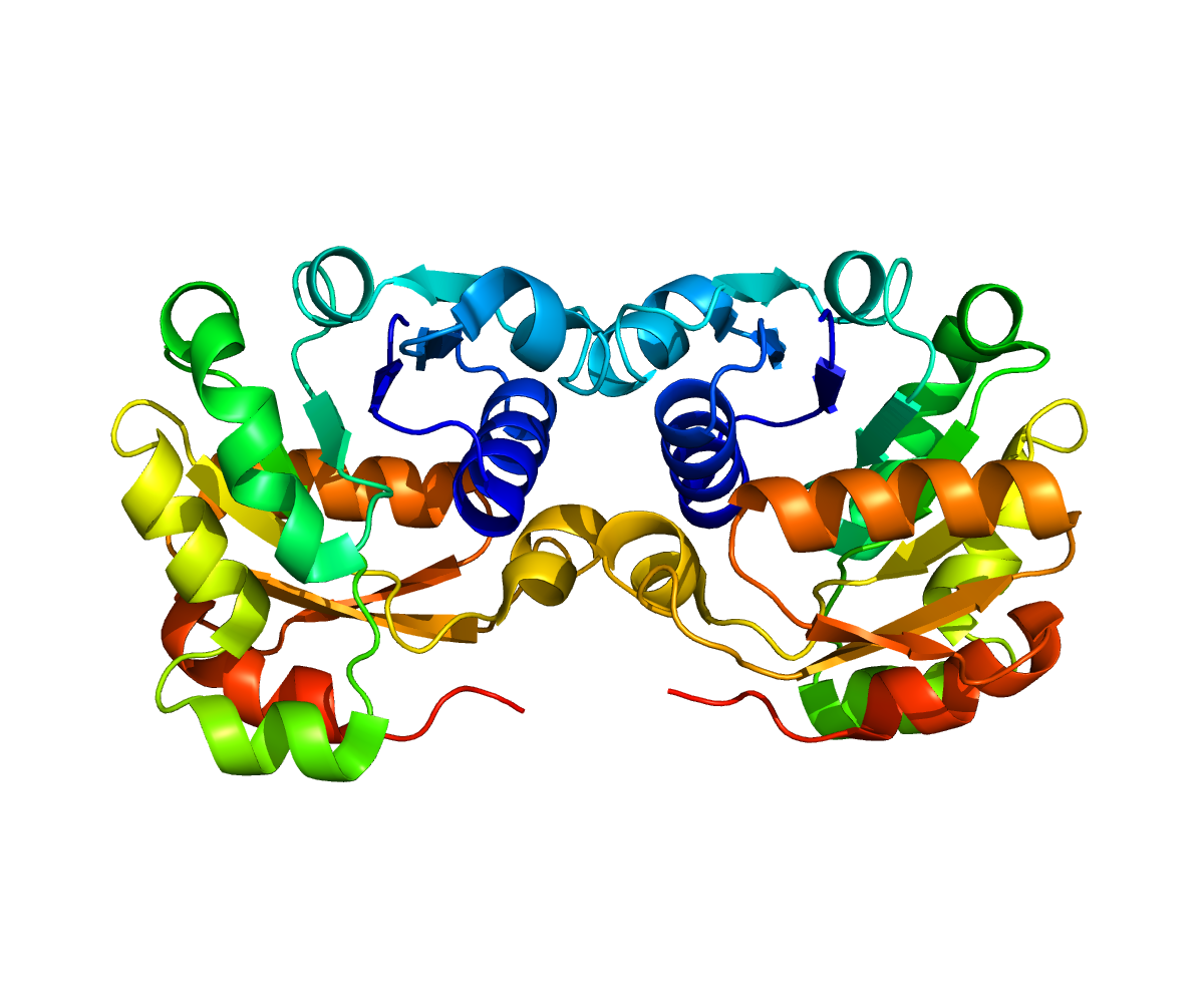 Structure of protein STEAP3.Based on PyMOL rendering of PDB 2VNS.